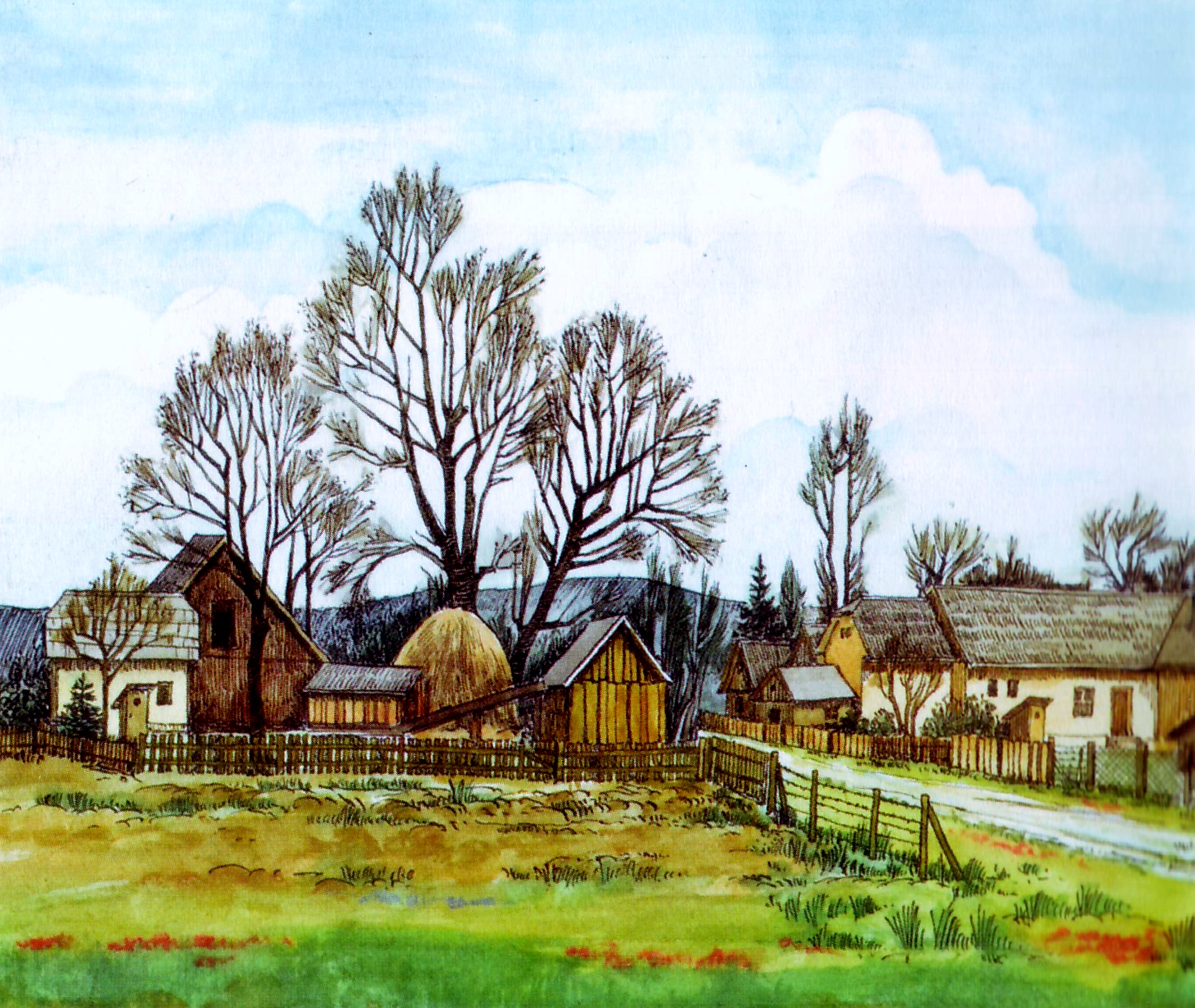 Dedinský motív (Country motif) - colorized pen-and-ink drawing (28x40,5) - 2009. Srpski (latinica): Dedinský motív (Seoski motiv) - kolorizovani crtež tušem (28x40,5) - 2009.